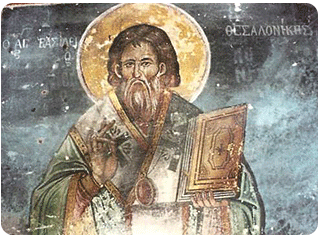 Saint Basil Omologites, bishop of Thessaloniki, fresco in the katolikon of Vatopedi Monastery